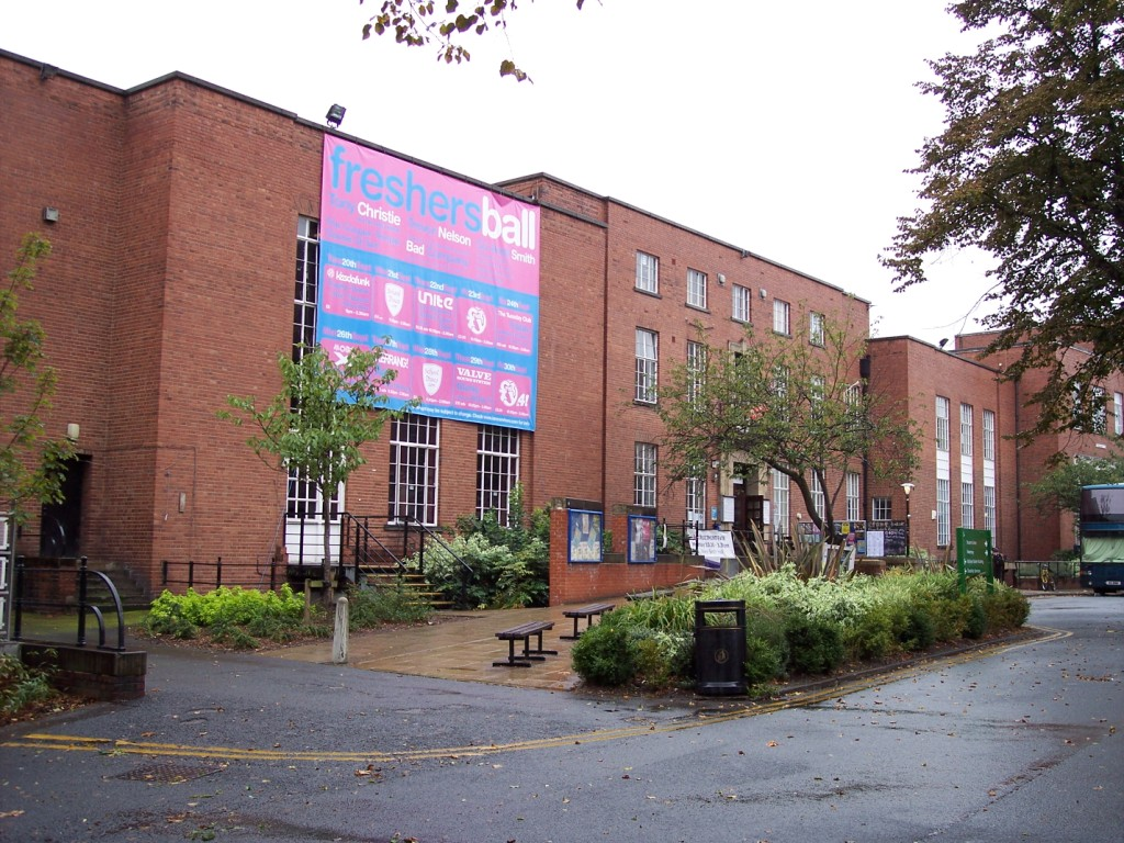 University of Leeds: Leeds University Union (students' union) building